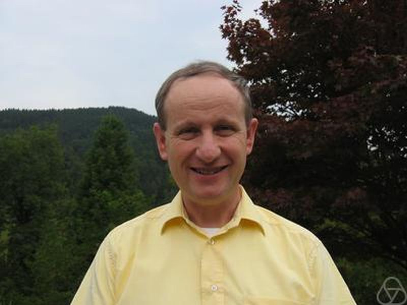 Gerard Laumon, Oberwolfach 2004